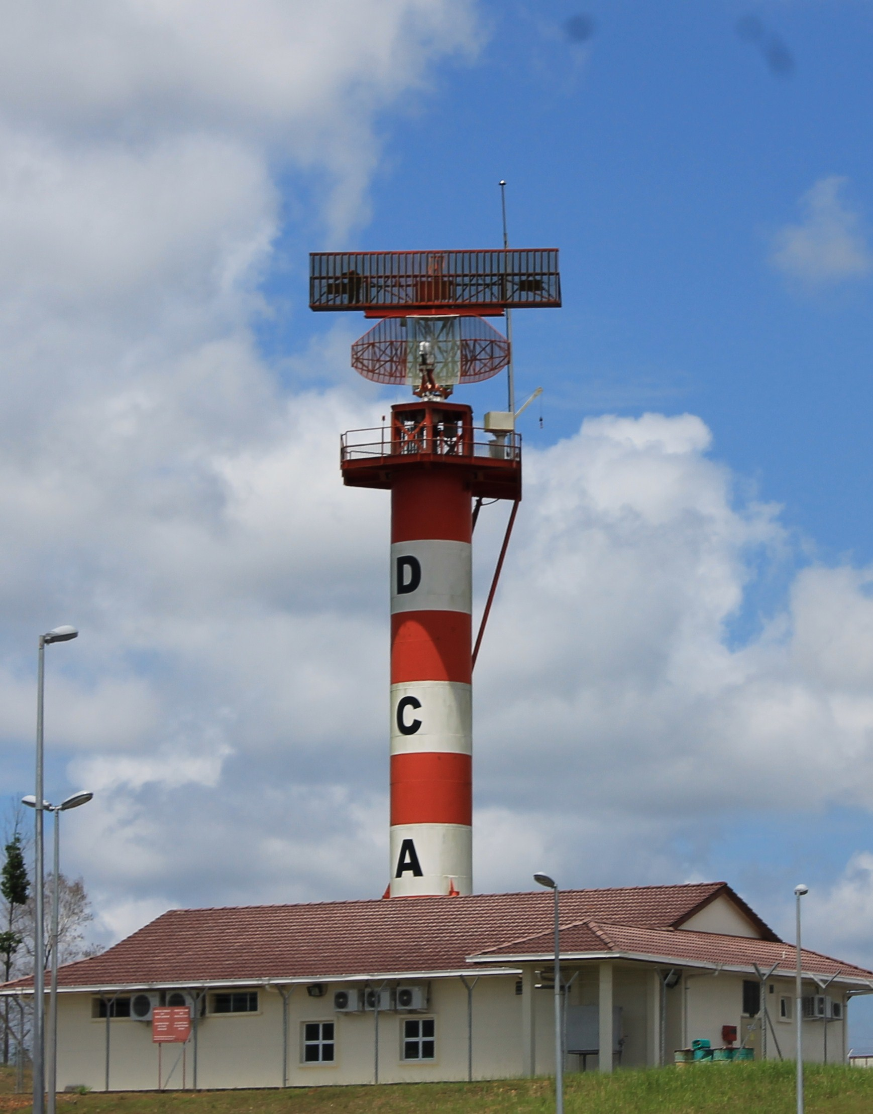 Sibu Airport radar surveillance tower. DCA (Department of Civil Aviation, Malaysia) is printed on the tower surface.